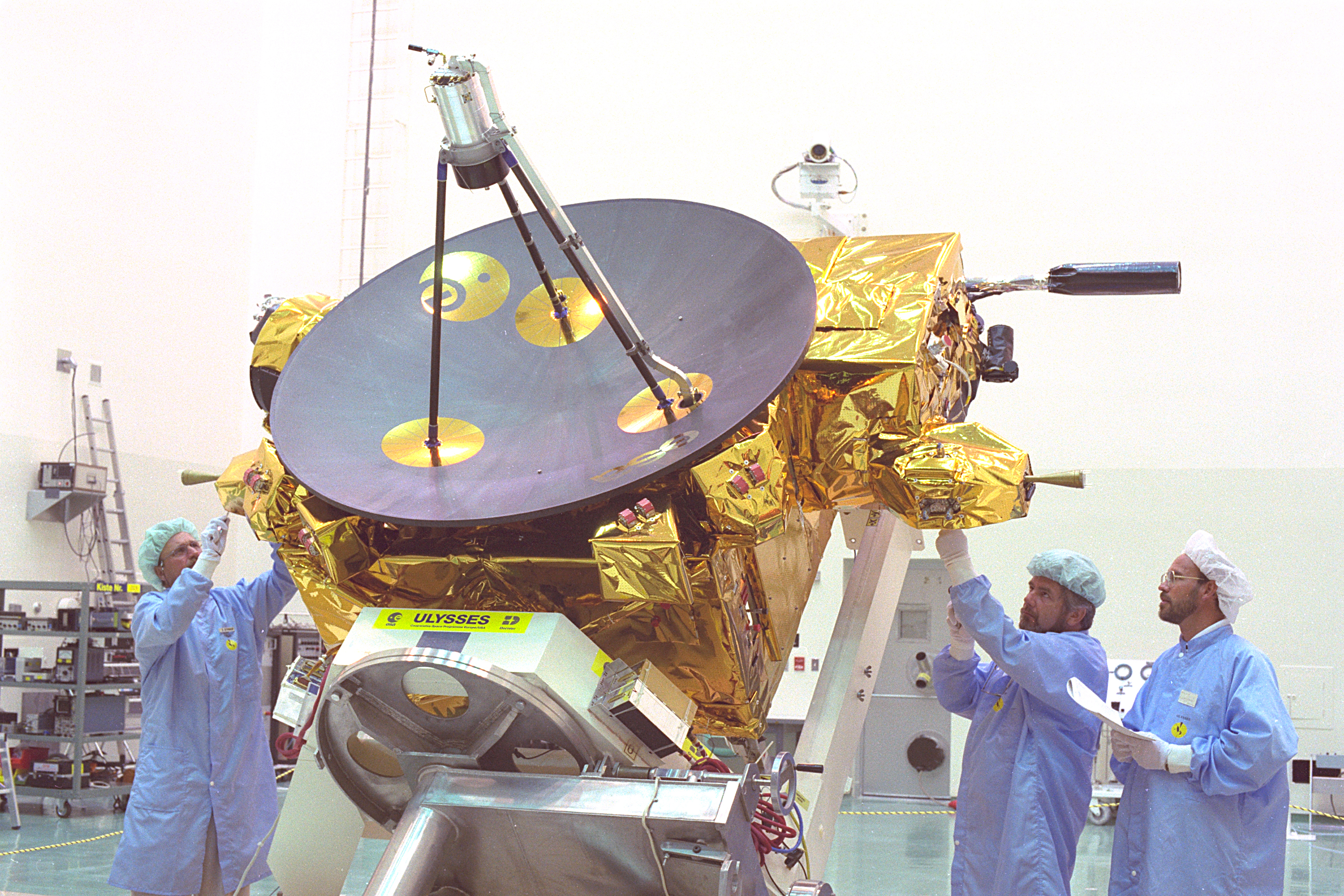 Technicians in Hangar AO on Cape Canaveral Air Force Station continue preflight checkout and testing of the Ulysses spacecraft. Ulysses is a NASA/European Space Agency project scheduled for launch on Space Shuttle Mission STS-41 this fall.